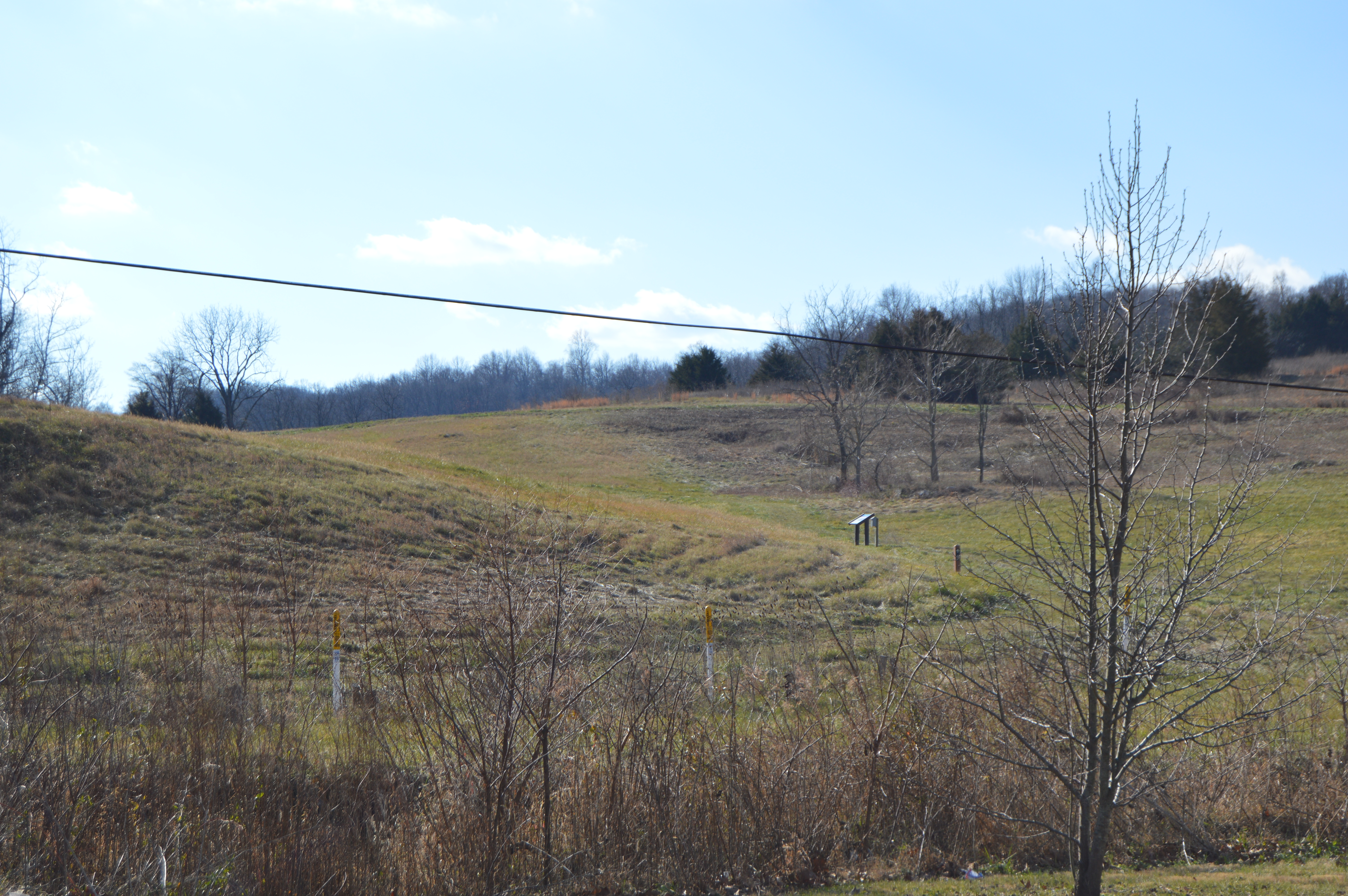 Overview of the Ramseur's Hill section of the Fisher's Hill battlefield, located along Battlefield Road west of Strasburg in Shenandoah County, Virginia, United States.